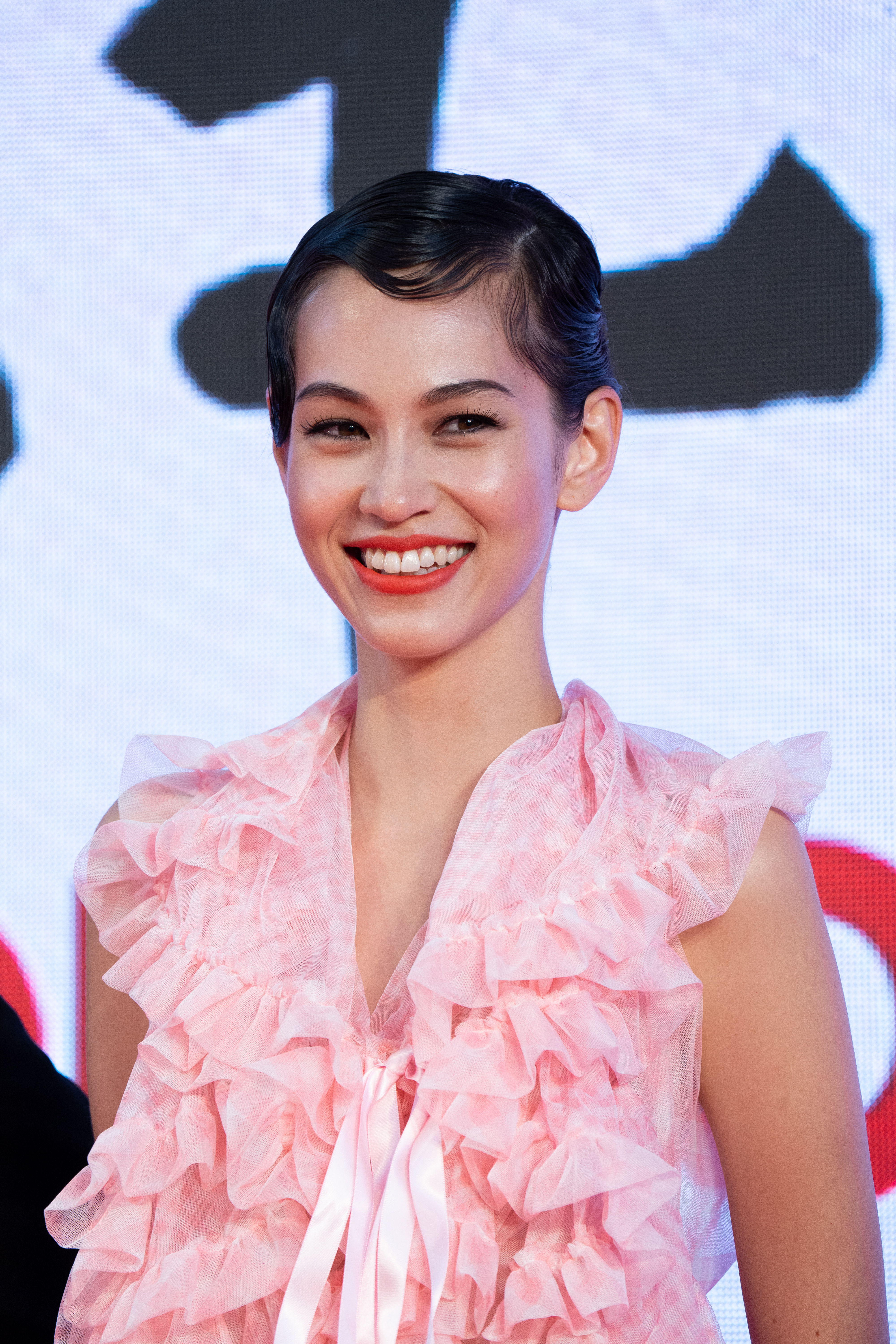 Kiko Mizuhara from "No Smoking" at Opening Ceremony of the Tokyo International Film Festival.